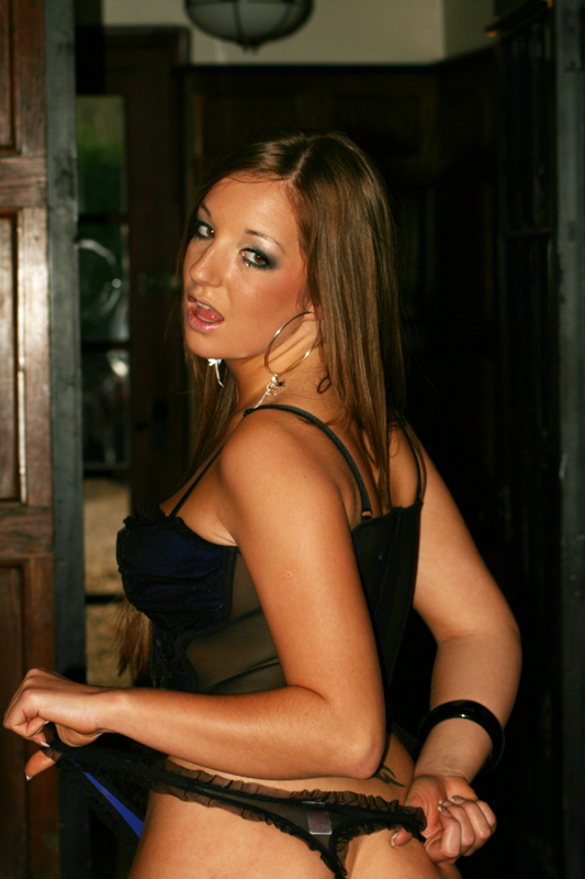 Cate Harrington is posing in this image from Sharon Davis's Flickr account